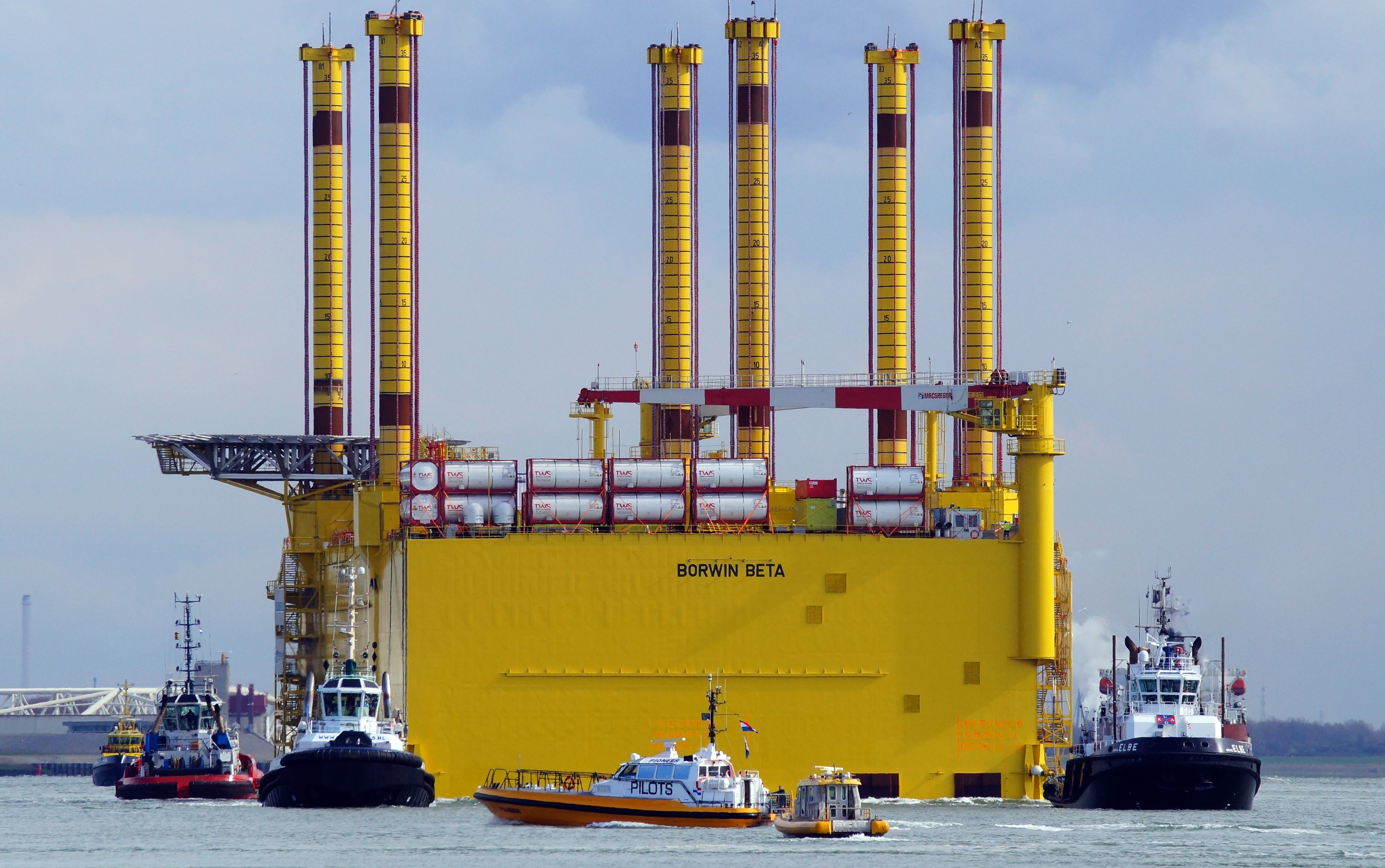 Transport of BorWin beta offshore HVDC converter platform (WIPOS type, floating and self-lifting structure), Nieuwe Waterweg, NL